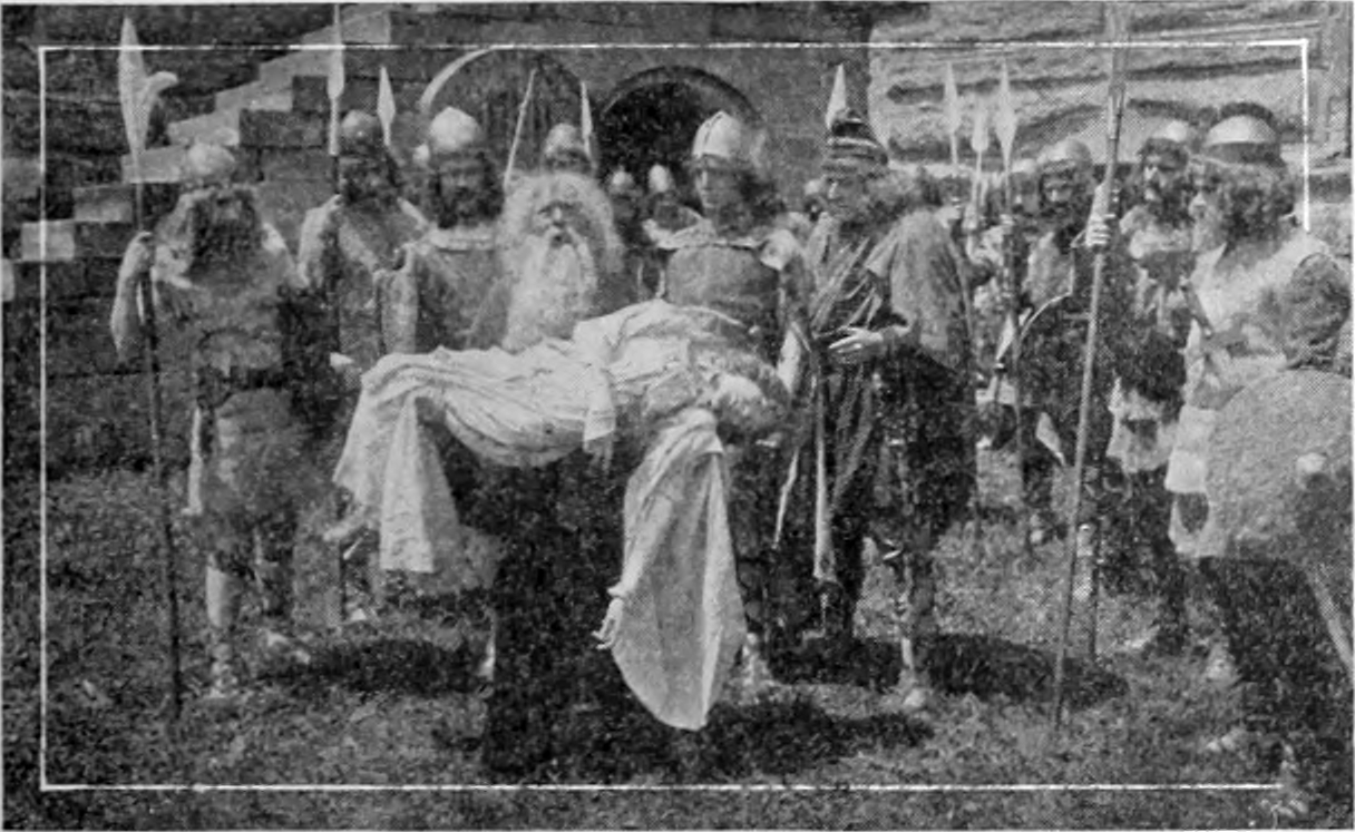 A scene from King Lear (1916), showing Lear mourning the death of Cordelia.